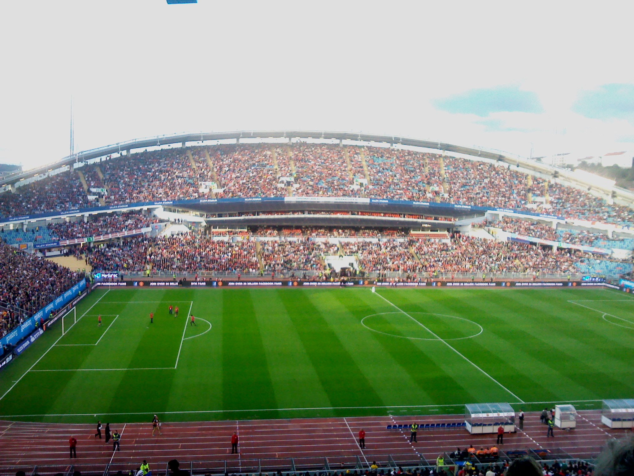 The soccer Supergame between FC Barcelona and Manchester United FC at Nya Ullevi in Gothenburg, Sweden 8 August 2012